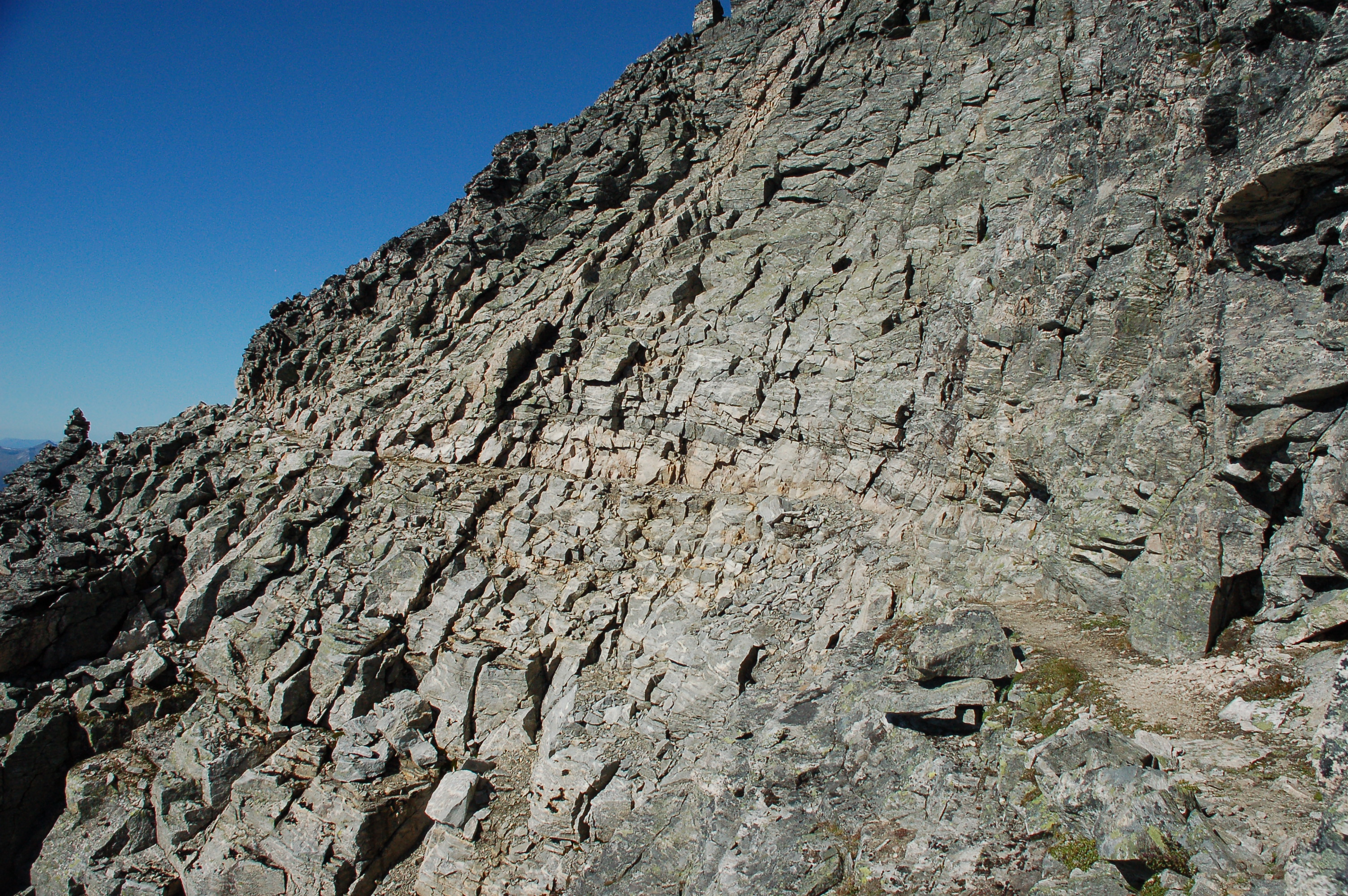 The Troll Highway (near Bruraskaret)